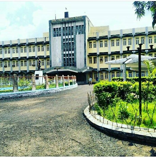 front view of main gate